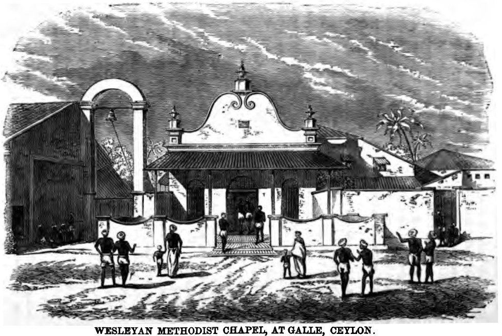 Wesleyan Methodist Chapel, at Galle, Ceylon (104, September 1868, II (New Series))